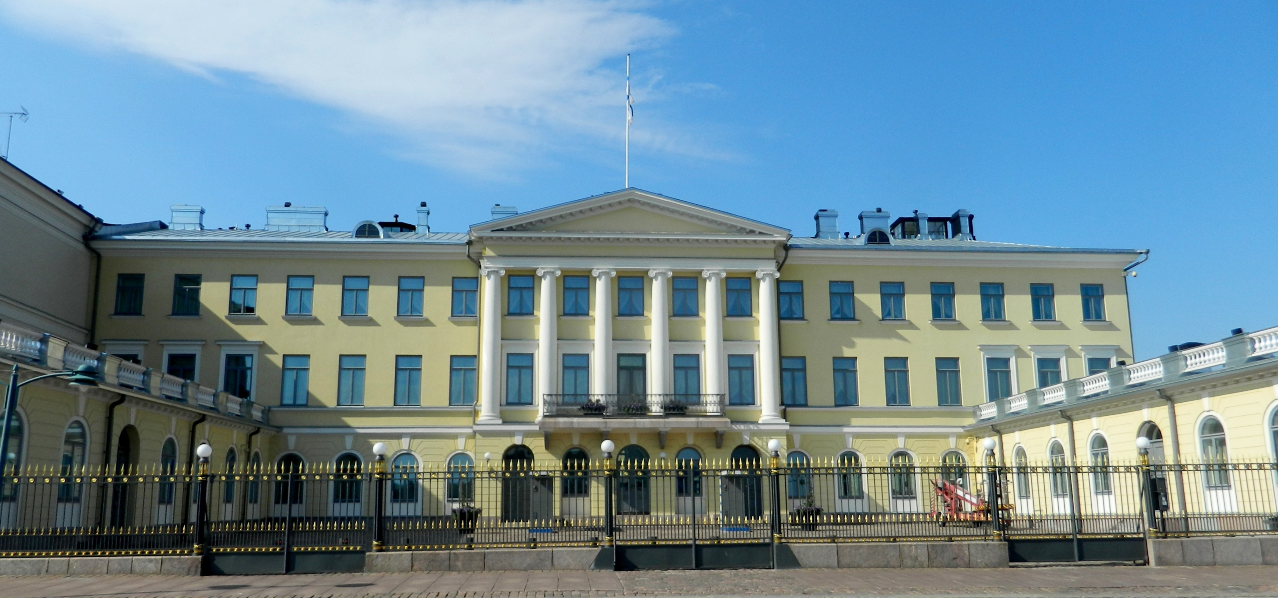 The Presidential Palace, Helsinki, Finland